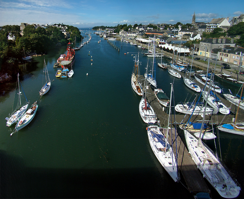 Douarnenez, Finistère, Bretagne, France. Port Rhu viewed downstream (to the north).